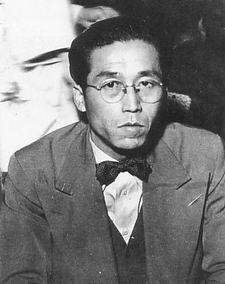 Renzaburo Shibata